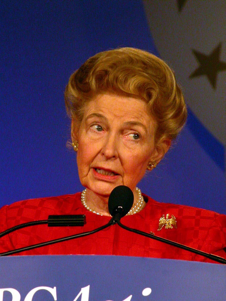 American conservative publicist Phyllis Schlafly in 2007 in Washington, DC at the Values Voters conference